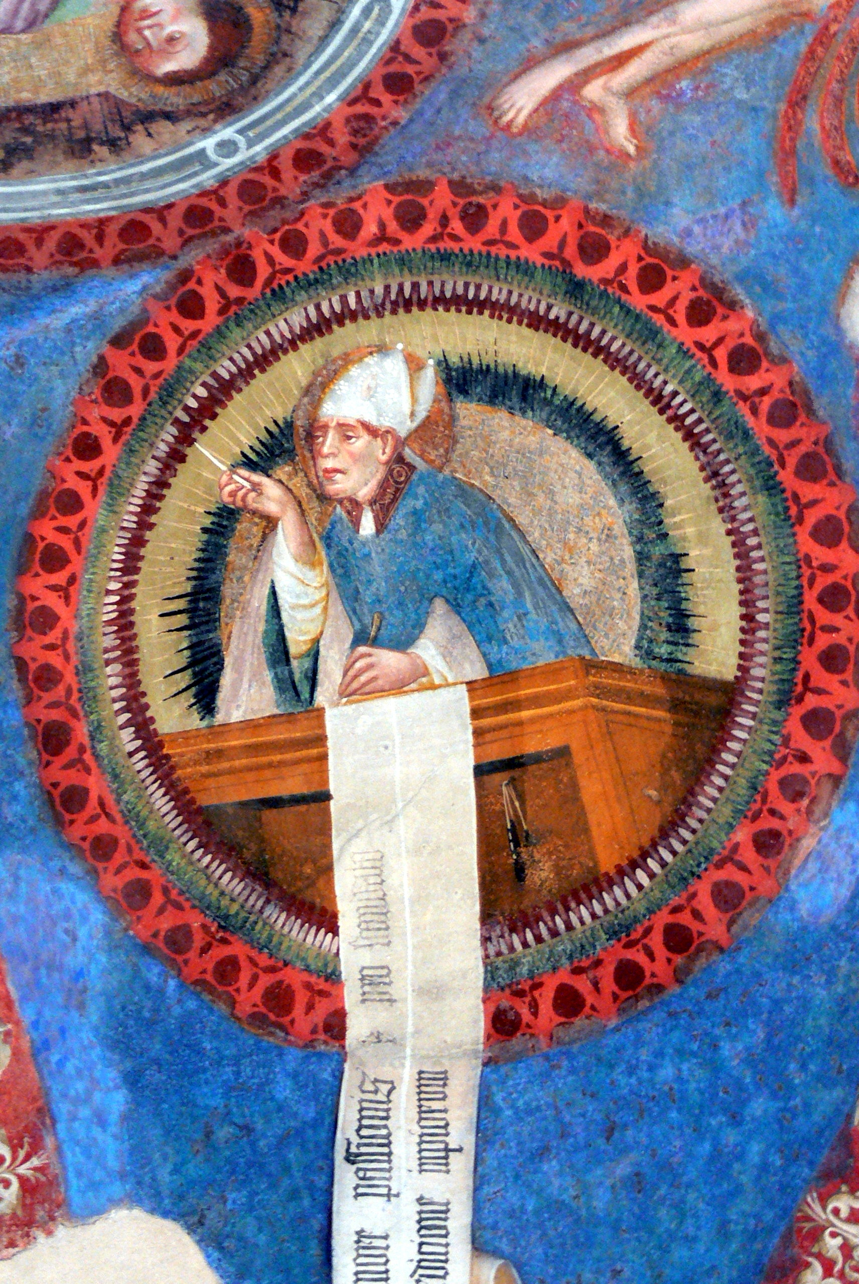 Tramin ( South Tyrol, Italy ). Saint James church in Kastelaz: Gothic frescos ( 1441 ) by Ambrosius Gander - Church doctor ( Saint Augustine or Ambrose ).